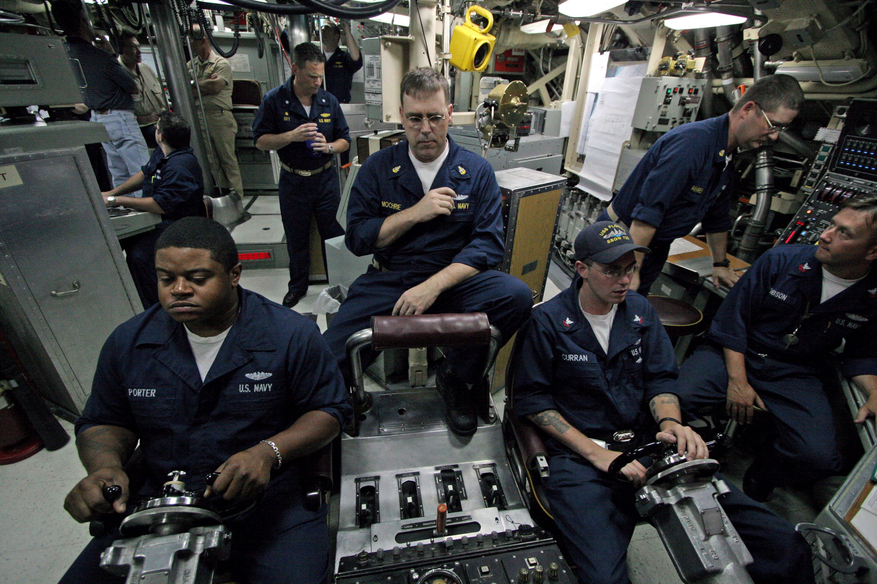 ID: DN-SD-07-05085 Service Depicted: Navy 060517-N-6027E-006 US Navy (USN) Senior Chief Electronics Technician (ETCS) Andrew Mochrie, (seated center) mans the diving Officer of the Watch in the control room aboard the USN OHIO CLASS Guided Missile Submarine USS FLORIDA (SSGN 728) during operations in the Atlantic Ocean